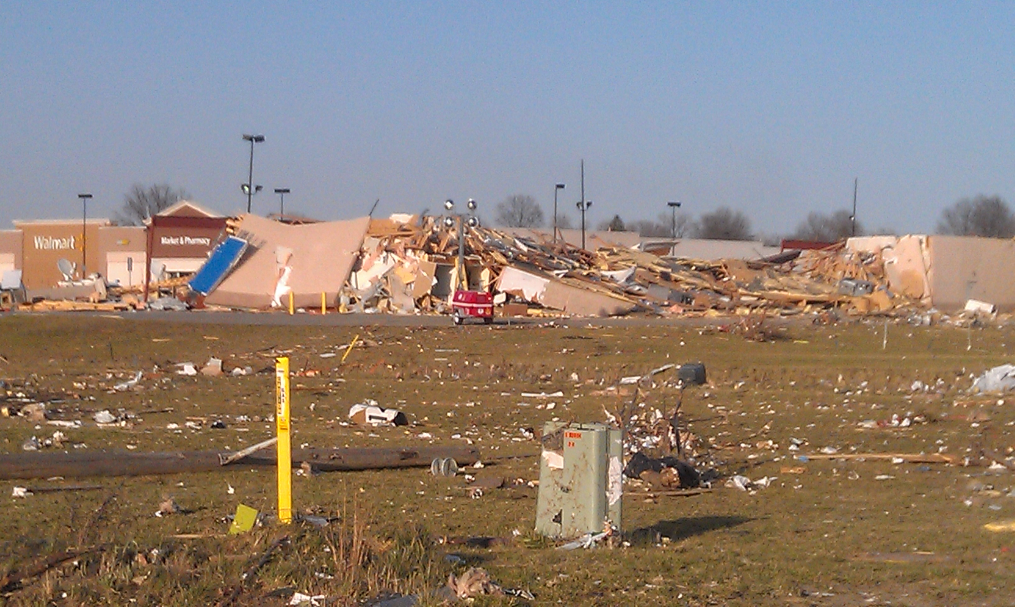 Across the street from the Forest Service office is the strip mall that still lays completely demolished in front of Walmart that lays completely demolished.